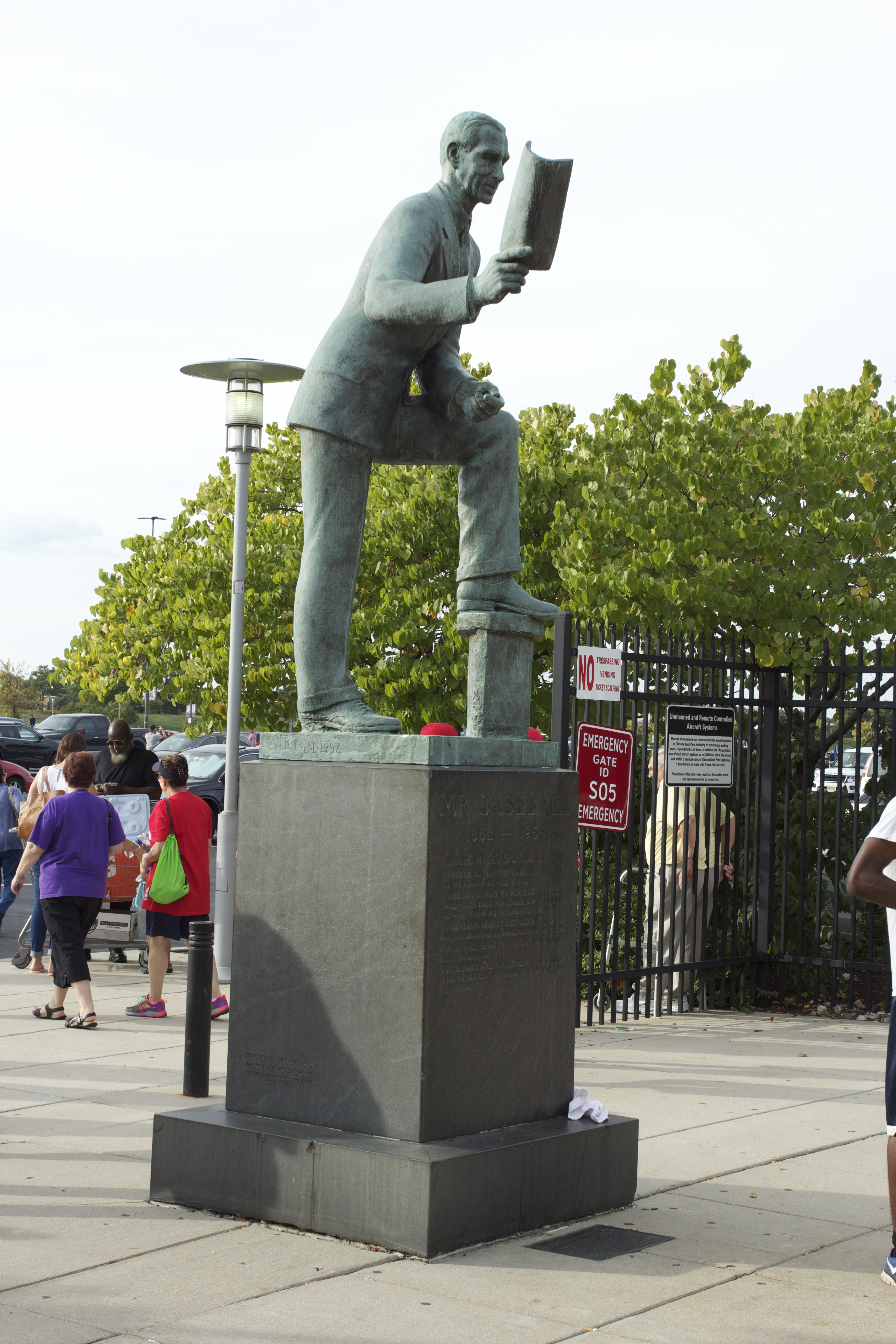 Sports statues in South Philadelphia